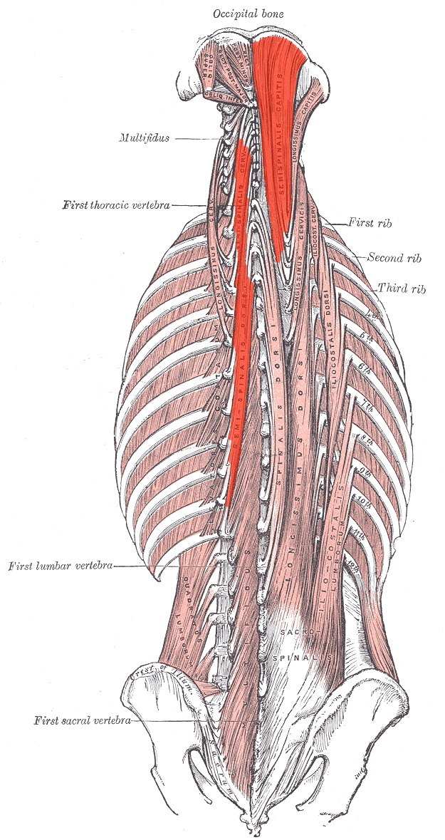 Semispinalis muscle